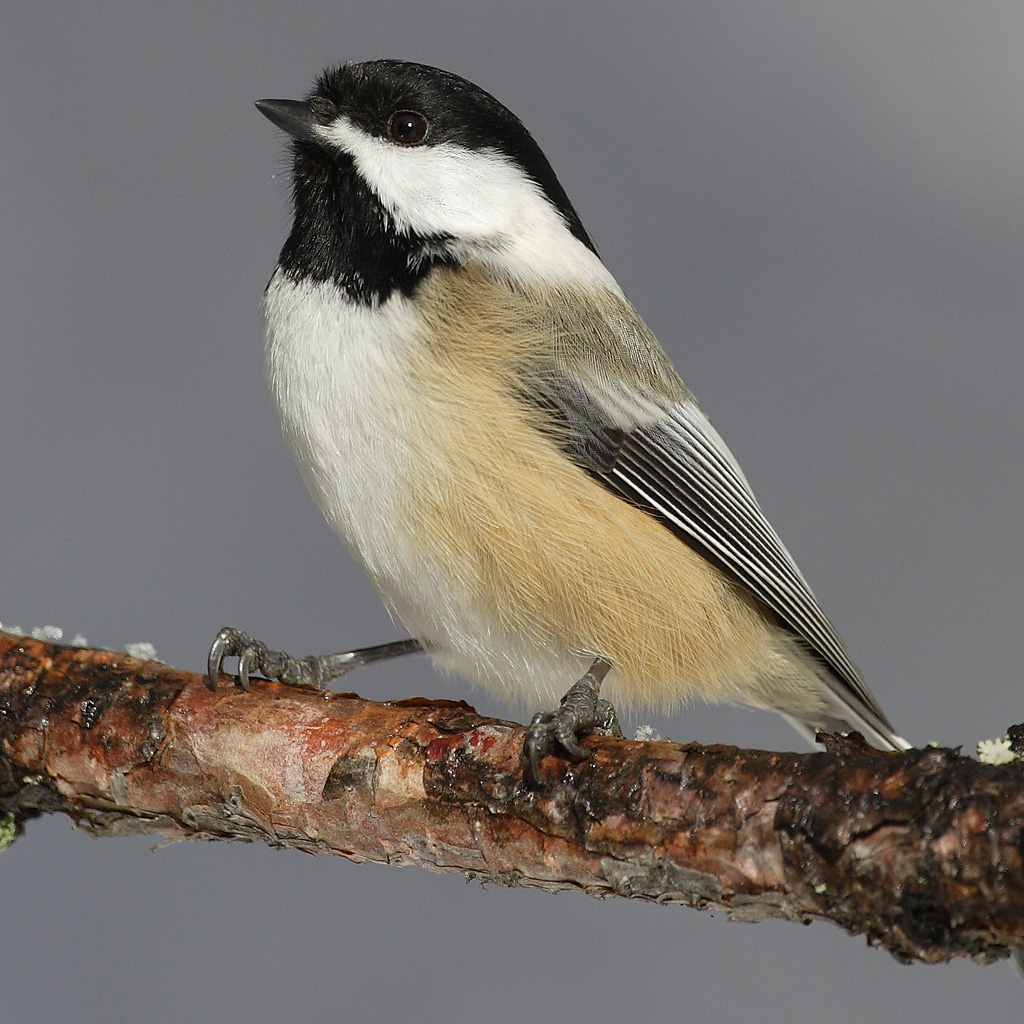 Black-capped Chickadee -- Algonquin Provincial Park, Canada -- 2005 December